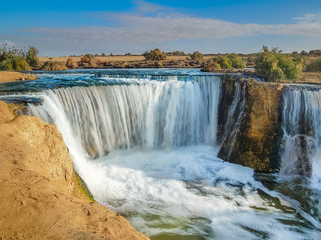 وادى الريان الفيوم